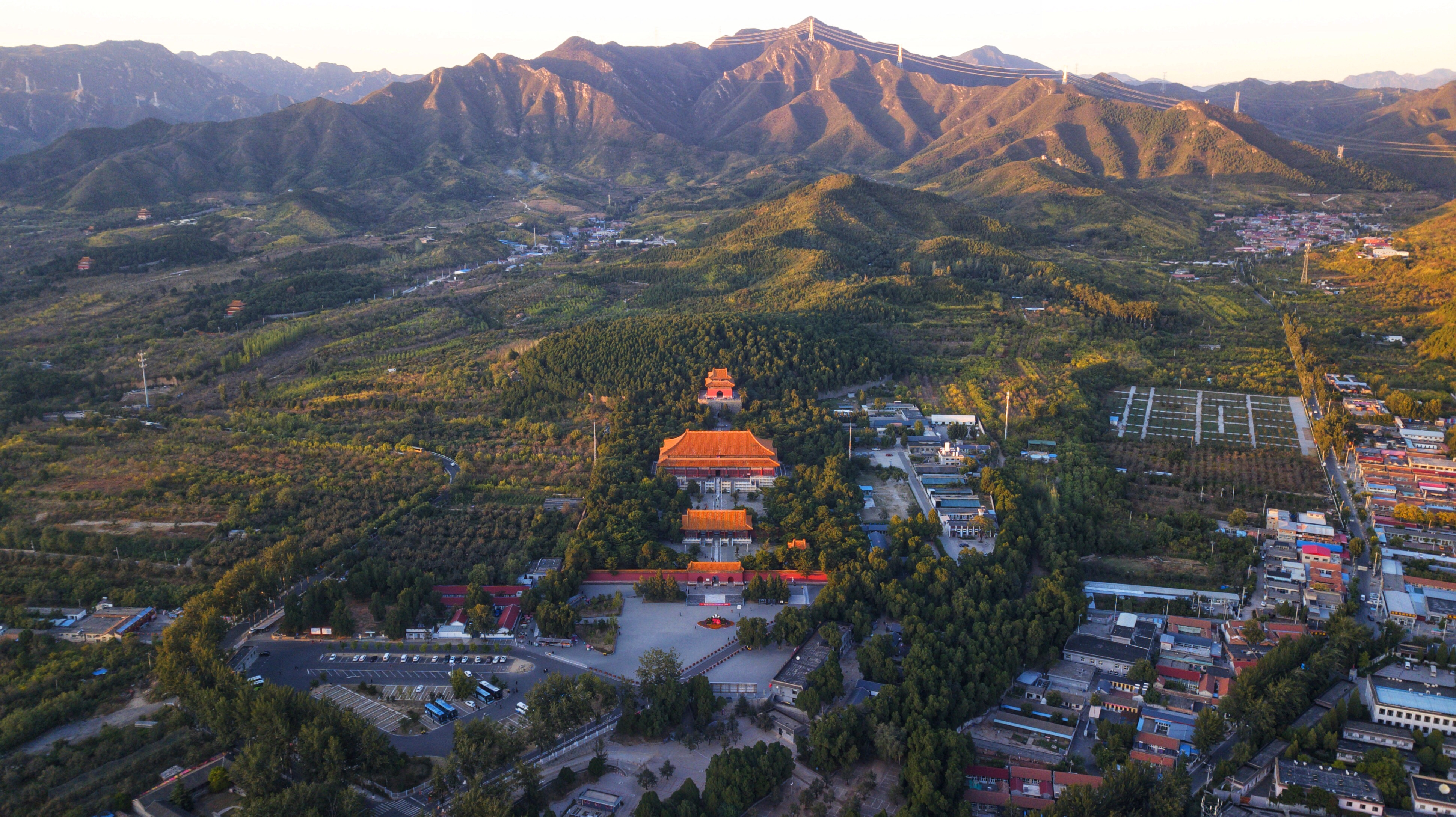 The Changling mausoleum where the Yongle emperor（Reign 1402.7.17 – 1424.8.12） was buried.